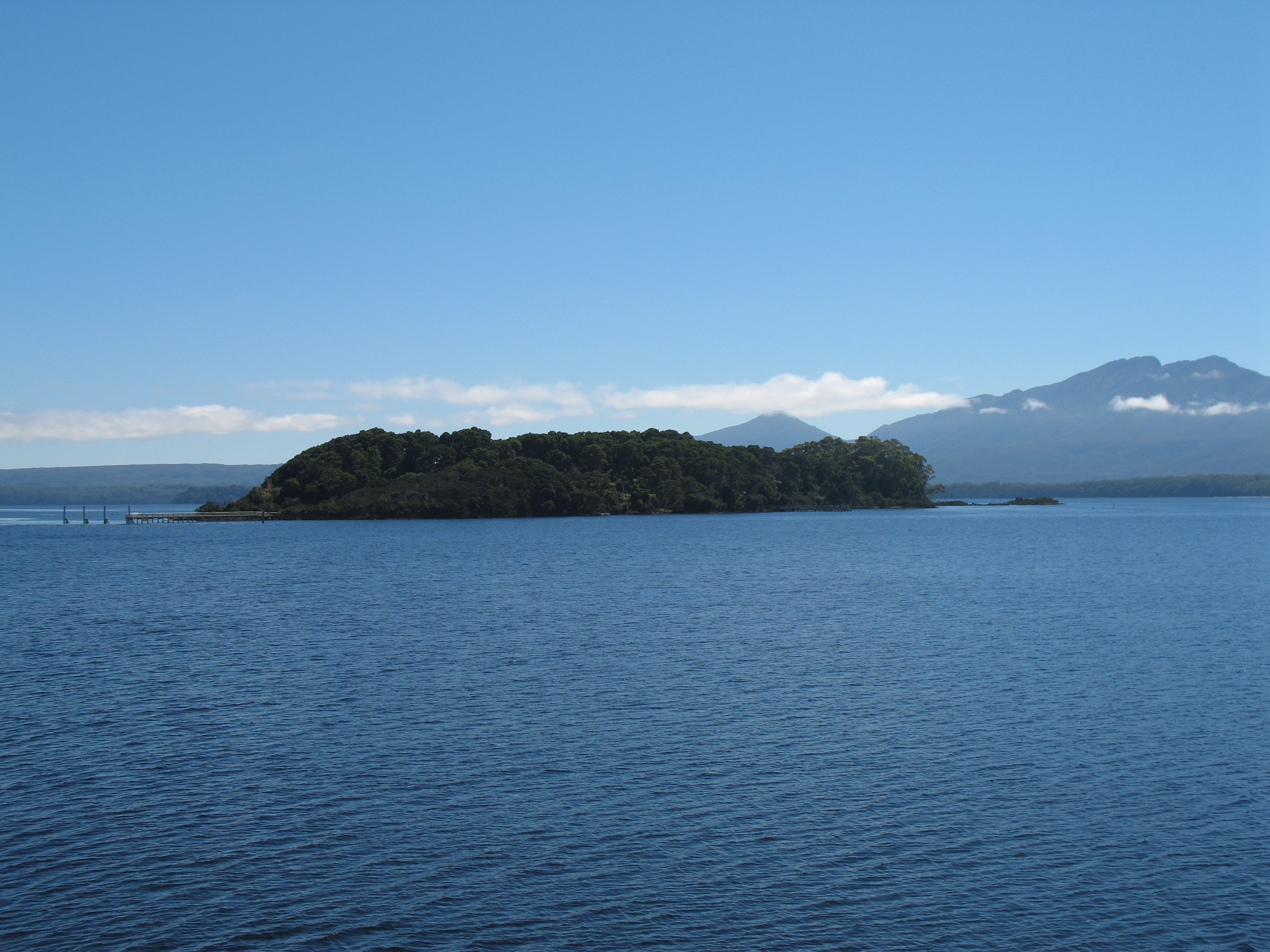 Sarah Island in Macquarie Harbor (Western Tasmania, Australia).